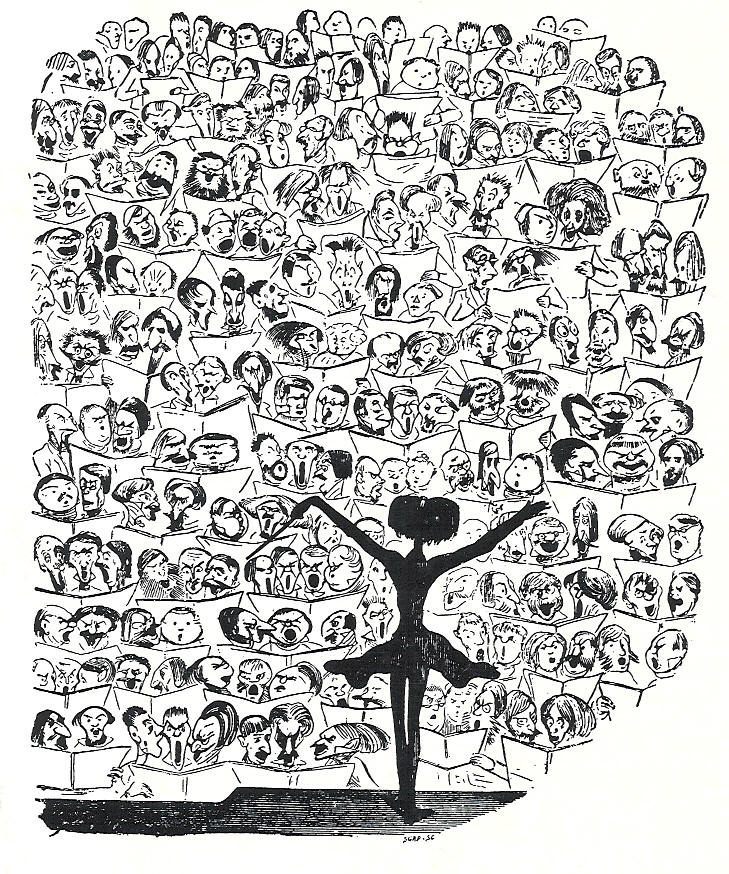 Hector Berlioz. Artist: Gustave Doré, published in Journal pour rire, 27 June 1850